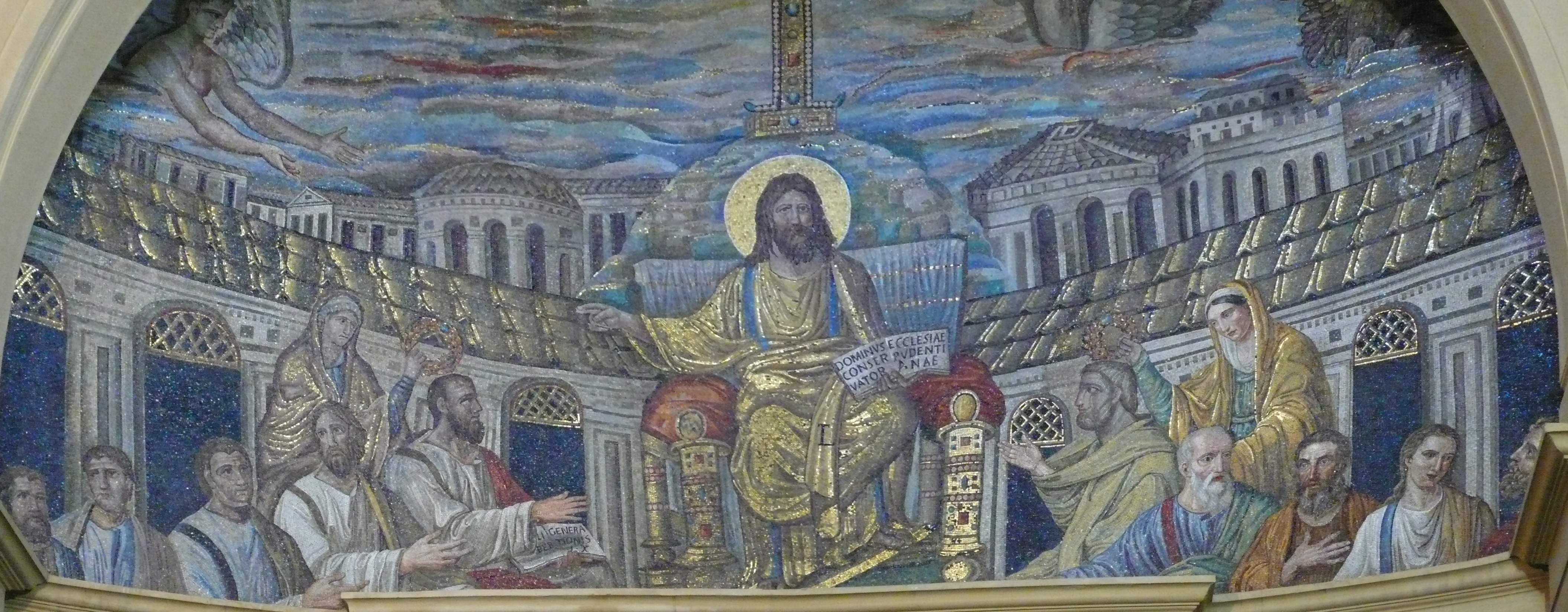 Apsis mosaic of Santa Pudenziana, Rome; Detail (Panorama)